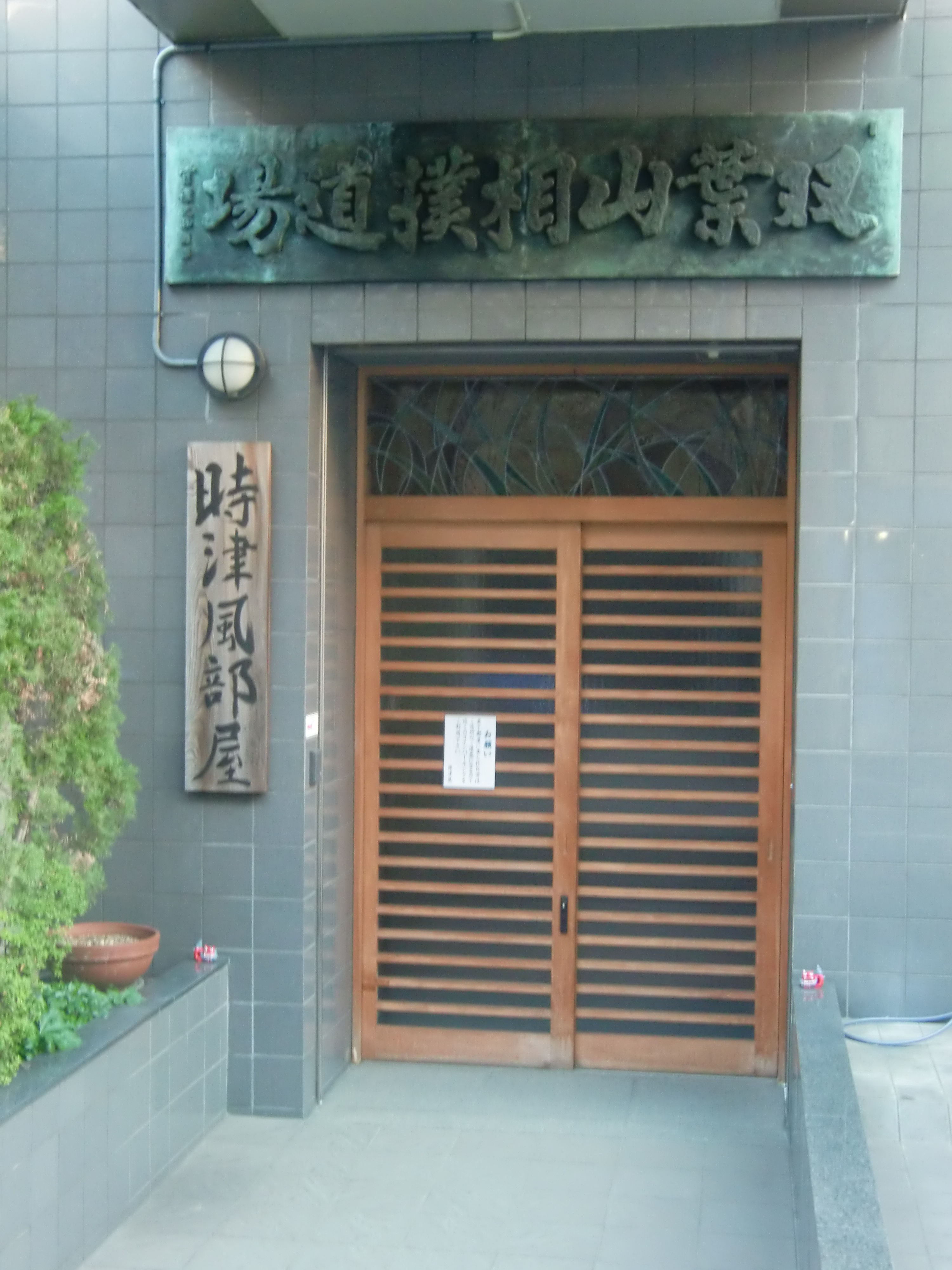 Taken outside the stable